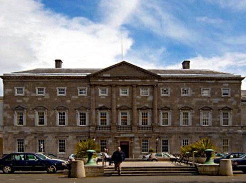 image of Leinster House. No copyright, my photograph